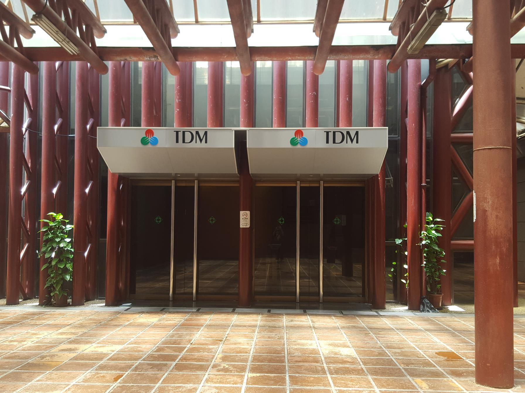 Macau TDM Studio